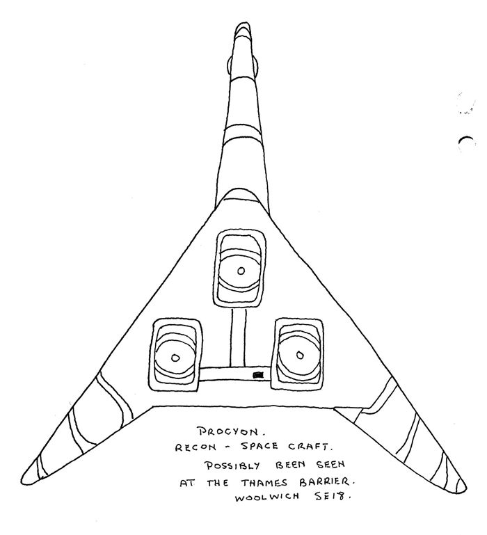 Description: Sketch sent to the Ministry of Defence of a UFO sighted over Woolwich, east London. Date: September 2003 Our Catalogue Reference: DEFE 24/2038 p.82 This image is from the collections of The National Archives. Feel free to share it within the spirit of the Commons. You can view the latest UFO files transferred from the Ministry of Defence at: .uk/ For high quality reproductions of any item from our collection please contact our image library.